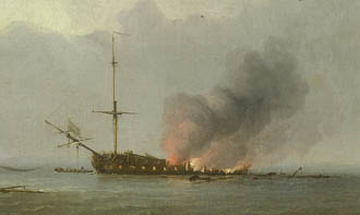 The Spanish 74-gun ship 'Glorioso' was on her way to Cadiz from Ferrol, where she had landed treasure, when she was attacked by a number of English ships, including the 'Royal family' squadron of privateers commanded by Commodore Walker. She was engaged by several ships of inferior force including Walker's privateer the 'King George', 32 guns, which kept up a close but unequal struggle for several hours, and the 'Dartmouth', 50 guns, which blew up. After a five-hour battle, the 'Glorioso' was finally captured by the 'Russell', 80 guns, which was returning half-manned from the Mediterranean. The last shots of the action are shown with the 'Russell' and 'Glorioso' in the centre of the picture, both running in starboard-bow view. In a calm sea, the 'Glorioso', right, has lost her topmast, her ensign is being struck and there is a sailor on her bowsprit taking down the jack. To the left, the 'King George', in starboard-broadside view, is hove-to, with her sails in ribbons, her mizzen topmast gone and her foreyard shot in two. The topsails of the 'Prince Frederick' can be seen between the 'Russell' and 'Glorioso' over the gun-smoke. To their right in the background is a third privateer and to the right, port-broadside view, is the sinking, burning wreck of the 'Dartmouth', her foremast still standing. Only fourteen of her crew survived.